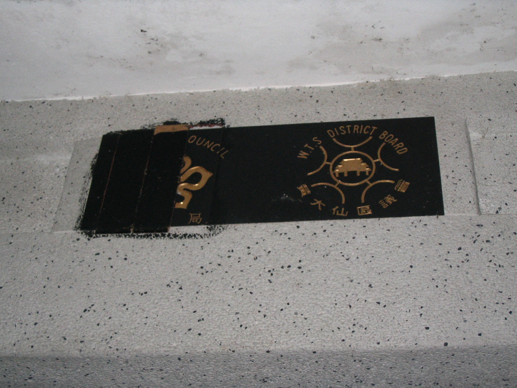 Photo of former Urban Council sign on a pavilion near Lion Rock Park